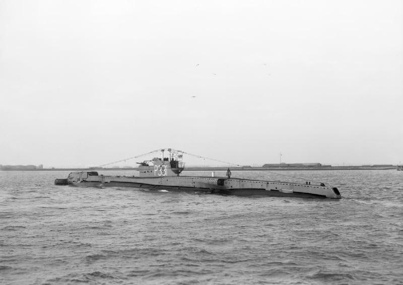 British T class submarine HMSM TRENCHANT secured to a buoy in the Medway.